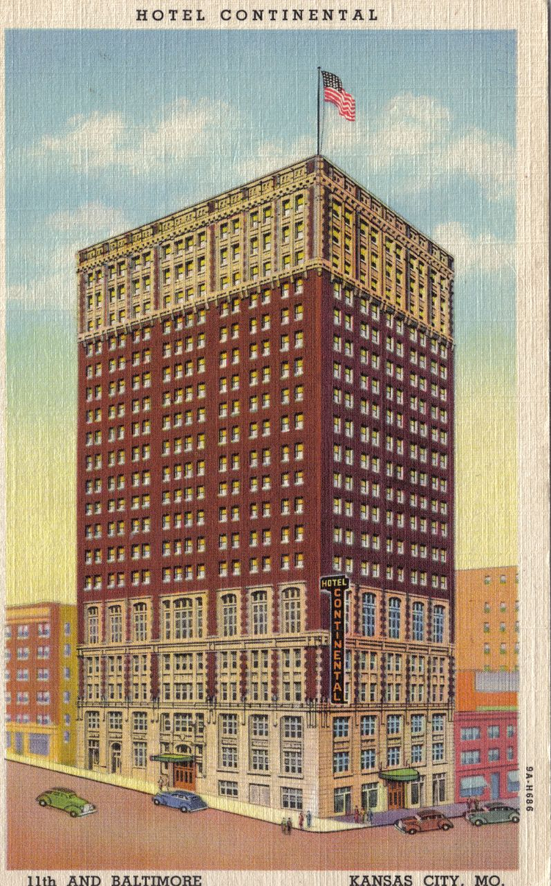 Northwest corner of 11th and Baltimore. Color version of image at